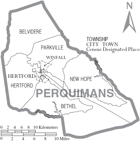 Map of Perquimans County, North Carolina, United States with township and municipal boundaries